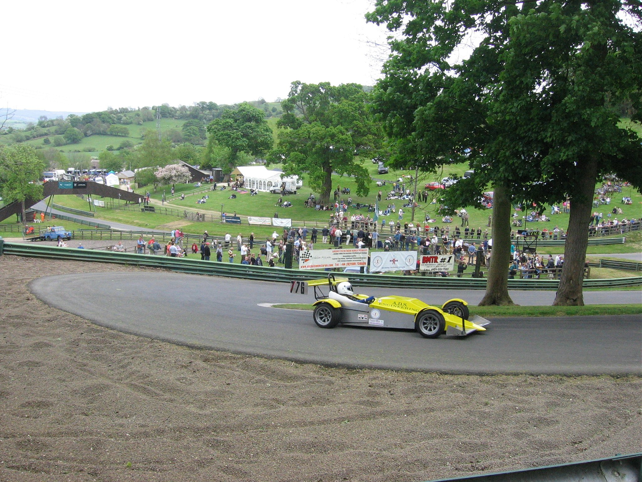 Andrew Gowen at Pardon Hairpin, Prescott hillclimb